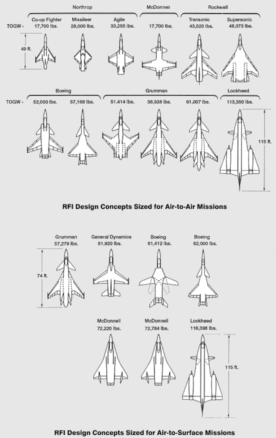 This table shows various responses to the RFI (Request For Information) which was requested by the USAF for the Advanced Tactical Fighter (ATF) concept.